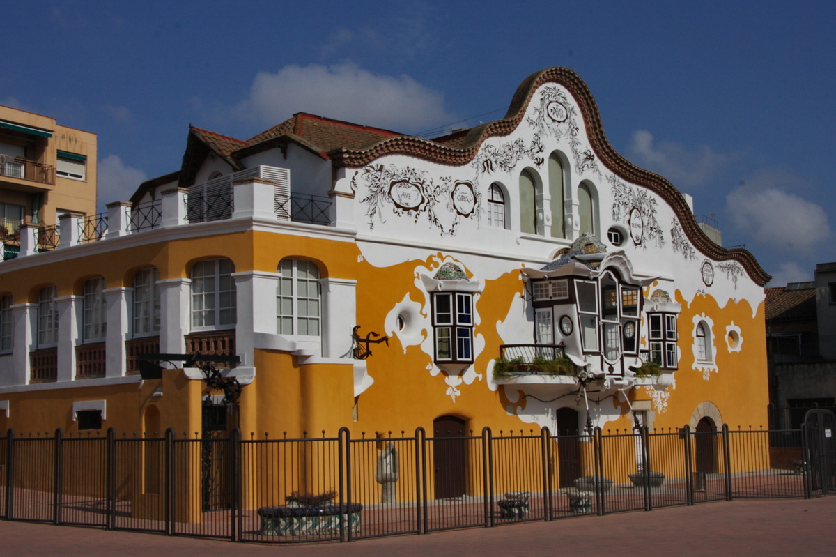 The former masia (“farm house“) Can Negre in Sant Joan Despí, Catalonia (Spain), altered by the Modernisme architect Josep Maria Jujol between 1915 and 1930.